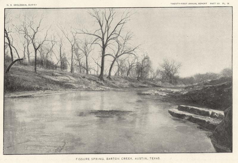 Original caption: Fissure spring, Barton Creek, Austin, Texas.